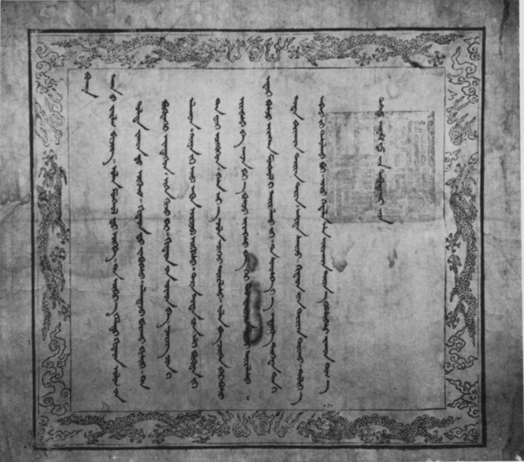 Edict by Hong Taiji in Mongolian. Was given to many Mongolian lords who were in military service in Ming (1640) Монгол: Дээд Эрдэмт хаанаас Мин улсын цэргийн албанд байсан олон монгол ноёдод өгсөн бичиг (1640)